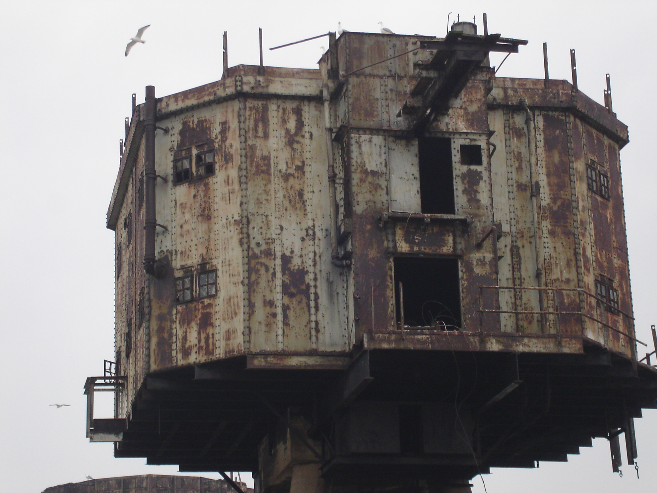 A picture of the Maunsell Sea Fort. Taken from a boat.